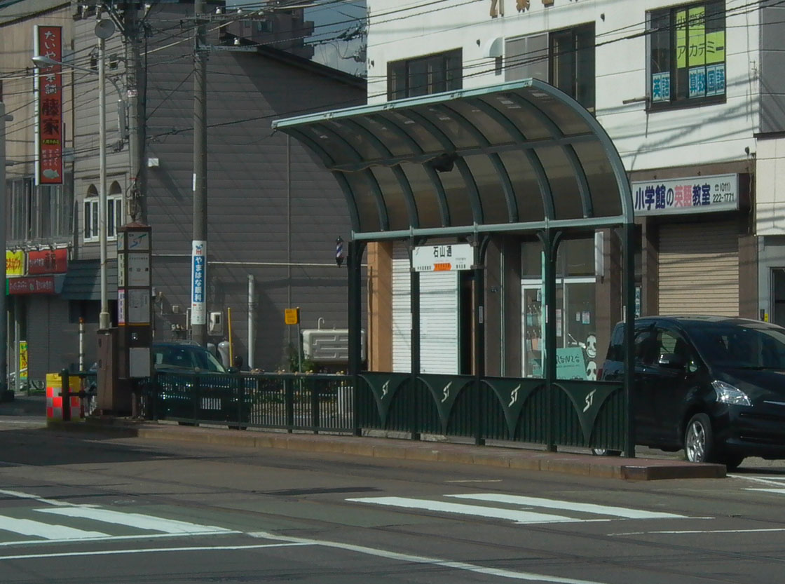 Ishiyama Dori station Sapporo, Hokkaido, Japan